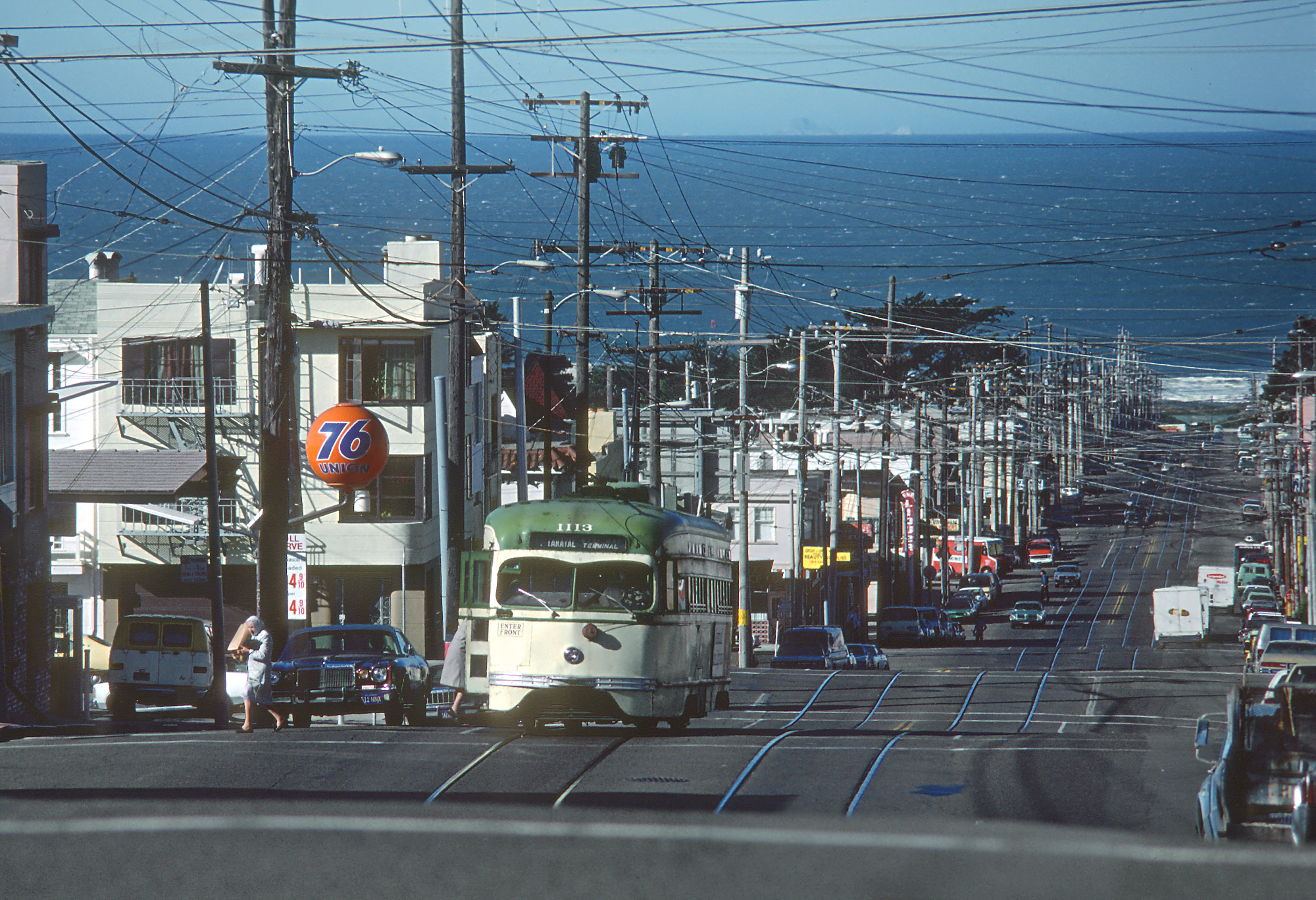 An inbound L Taraval streetcar picks up a passenger at 28th Avenue in February 1980